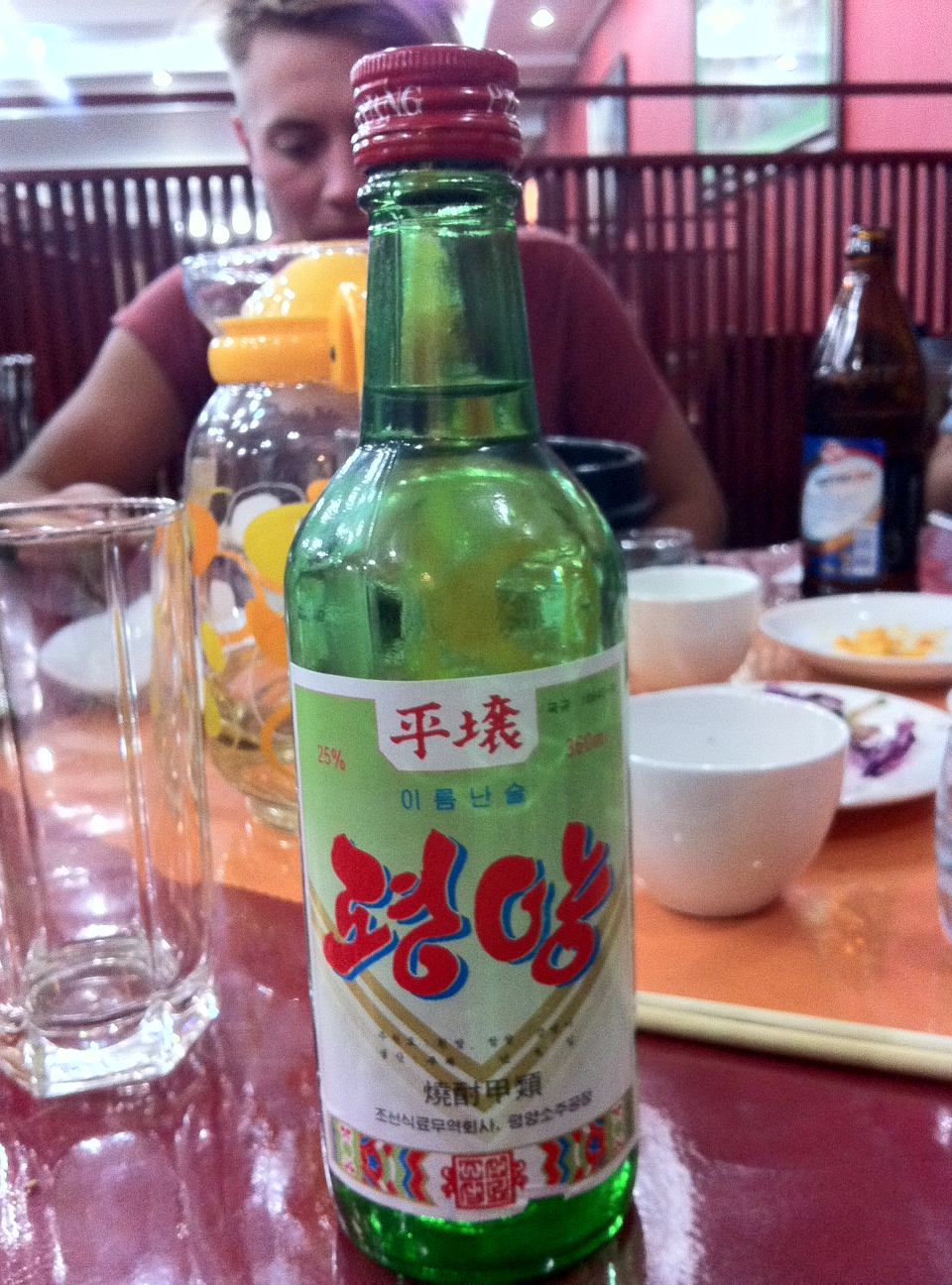 North Korean Soju.